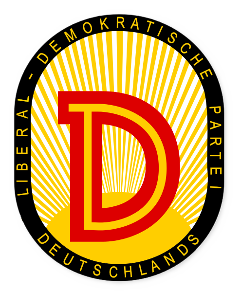 Logo of the LDPD of the GDR